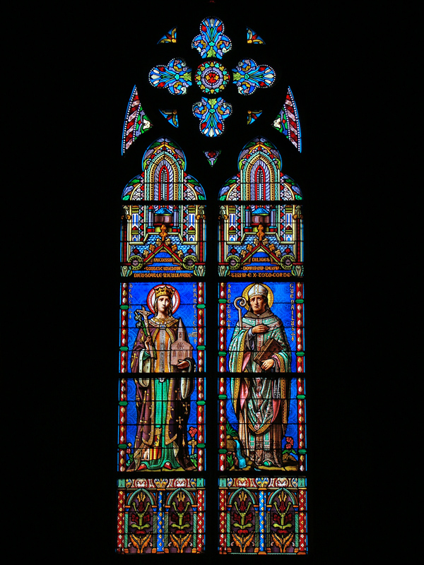 St. Peter's Cathedral, Vannes, Morbihan, Bretagne, France. Stained-glass window of the chapel of St. Gwenaël, representing: on the right, St. Gwenaël monk in the 6th Century; on the left, Blessed Françoise d'Amboise duchess of Brittany.